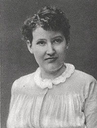 Anna Sofia Rustan (1857-1906) as Regina in Gengangere by Ibsen